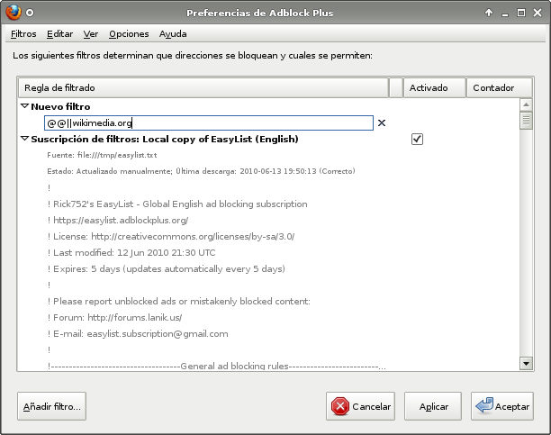 Spanish Adblock Plus v1.2 in Mozilla Firefox 3.6.3: the Preferences window, adding a filter exception. Also visible is use of a local copy of a filter list from the EasyList (English) subscription. The window manager is Xfwm 4.